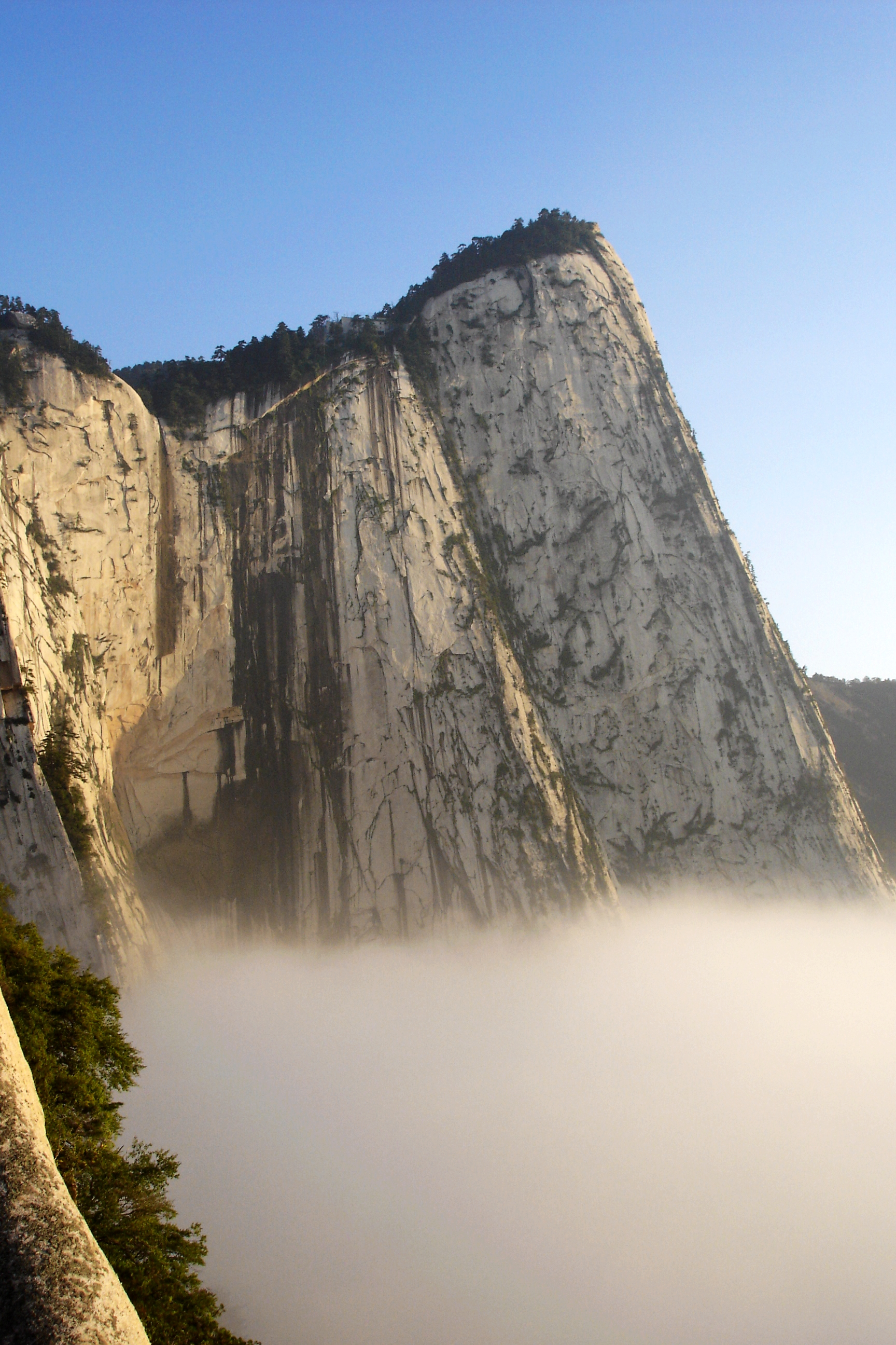 Western summit of the Hua Shan (Shaanxi, People's Republic of China).